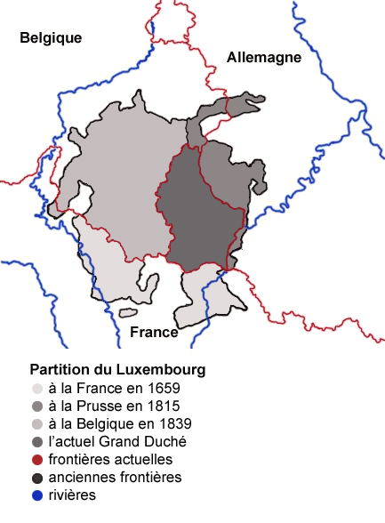 Map showing the partition of Luxembourg through the centuries, with French explanations.